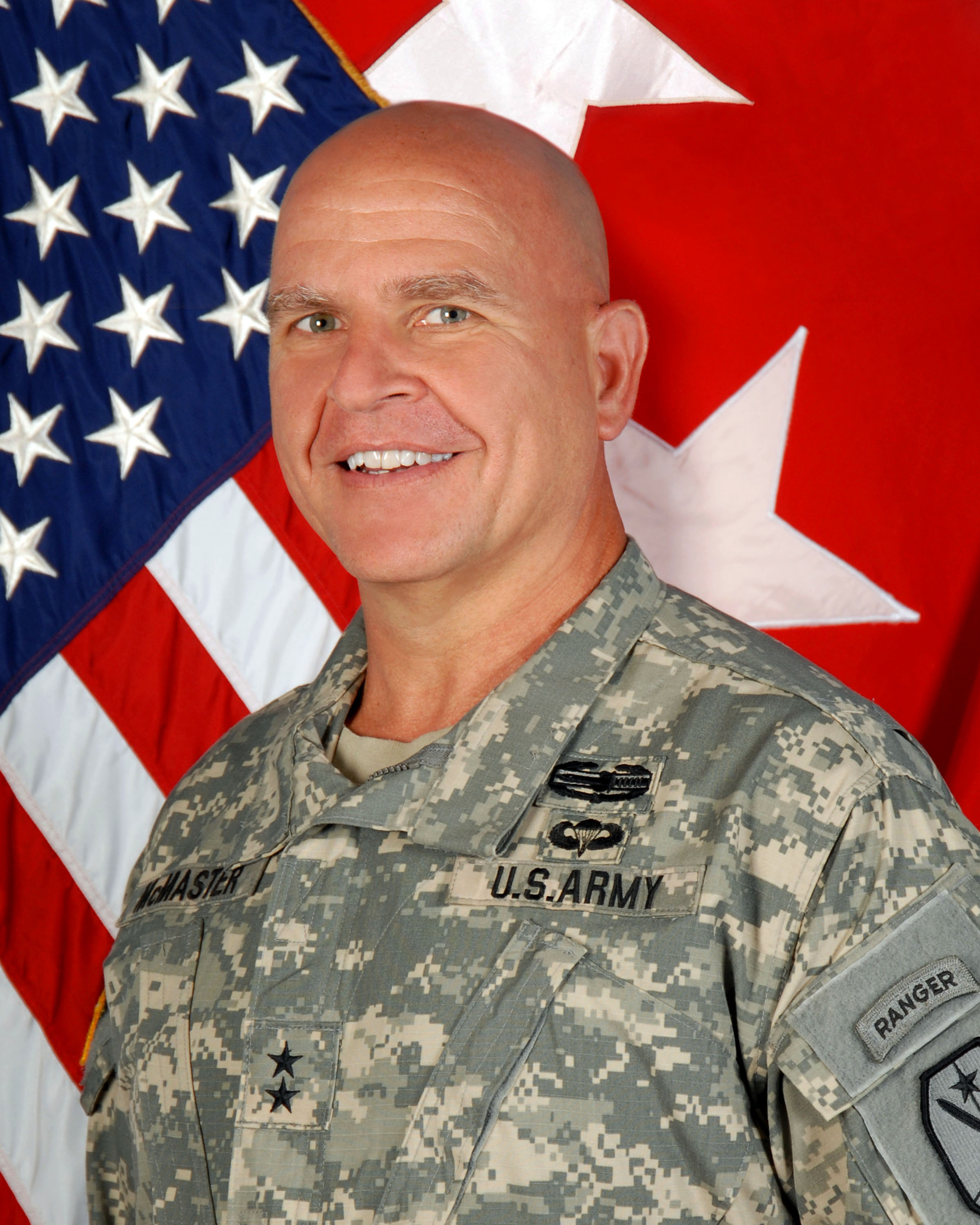 photo